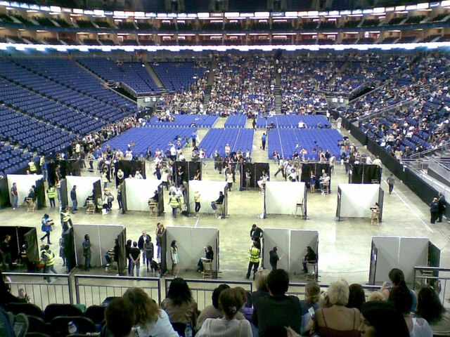 X Factor Auditions View of the hundreds of hopefuls going through the vetting procedure before going through to the next rounds. Is there a future winner here?